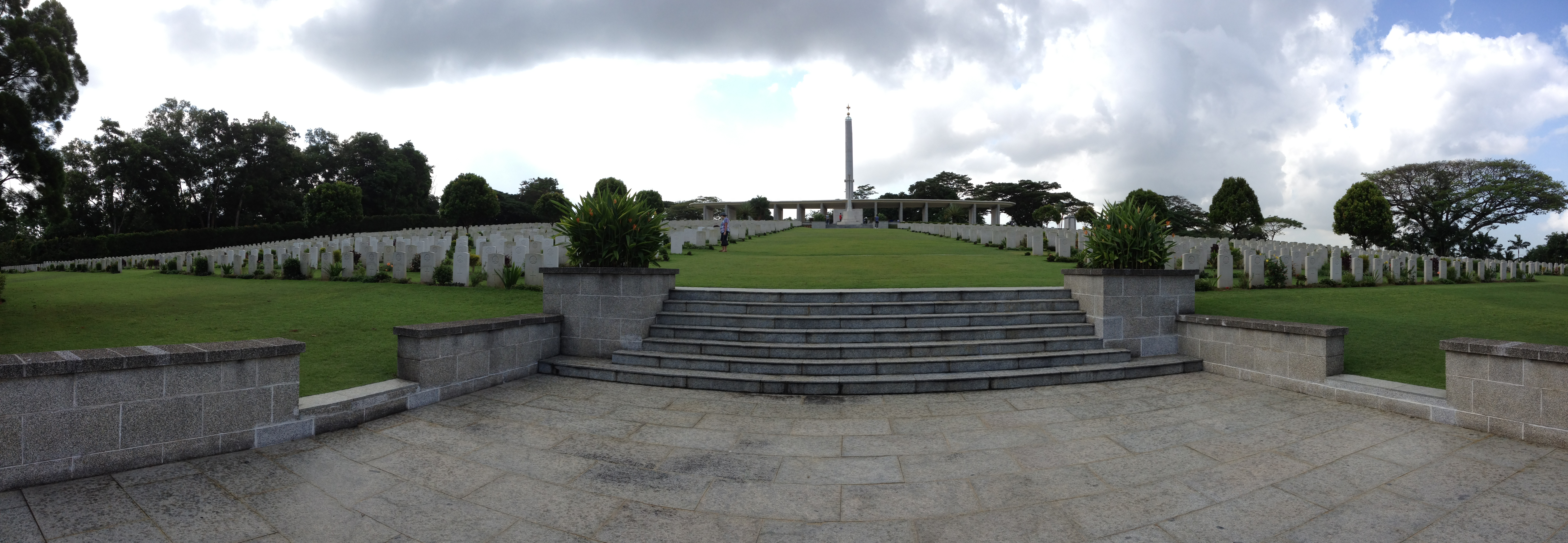 Panorama View of Kranji War Memorial, Singapore